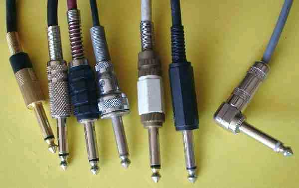 Modern profile 2-conductor male 1/4″ TS connectors. This is an original photograph by Andrew Alder, taken on 11 November 2003.